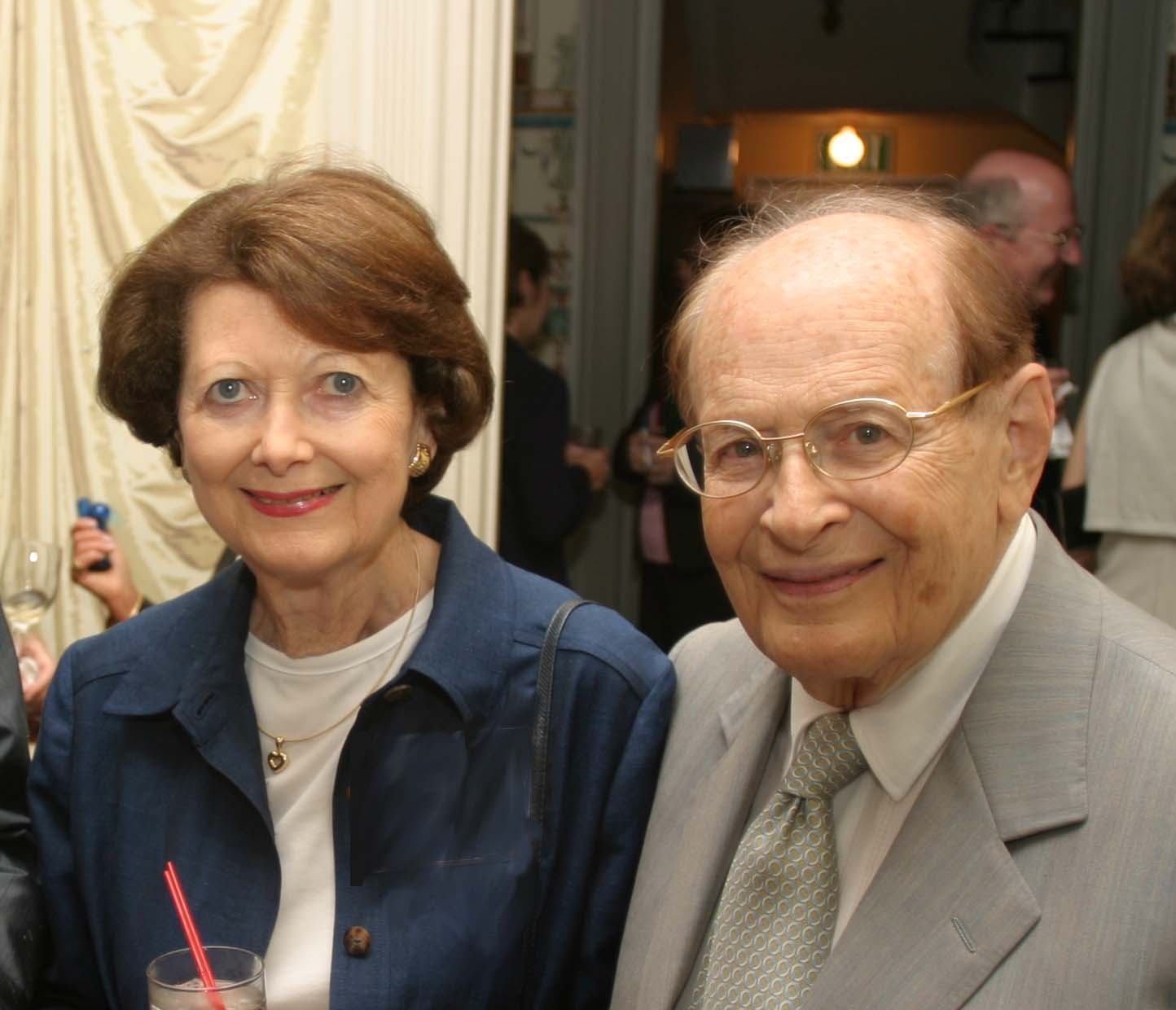 Photograph of George Rosenkranz, chemist and recipient of the 2004 Winthrop-Sears Medal, and his wife Edith Rosenkranz, 16 June 2004, at Heritage Day, Chemical Heritage Foundation, Philadelphia, PA, USA.